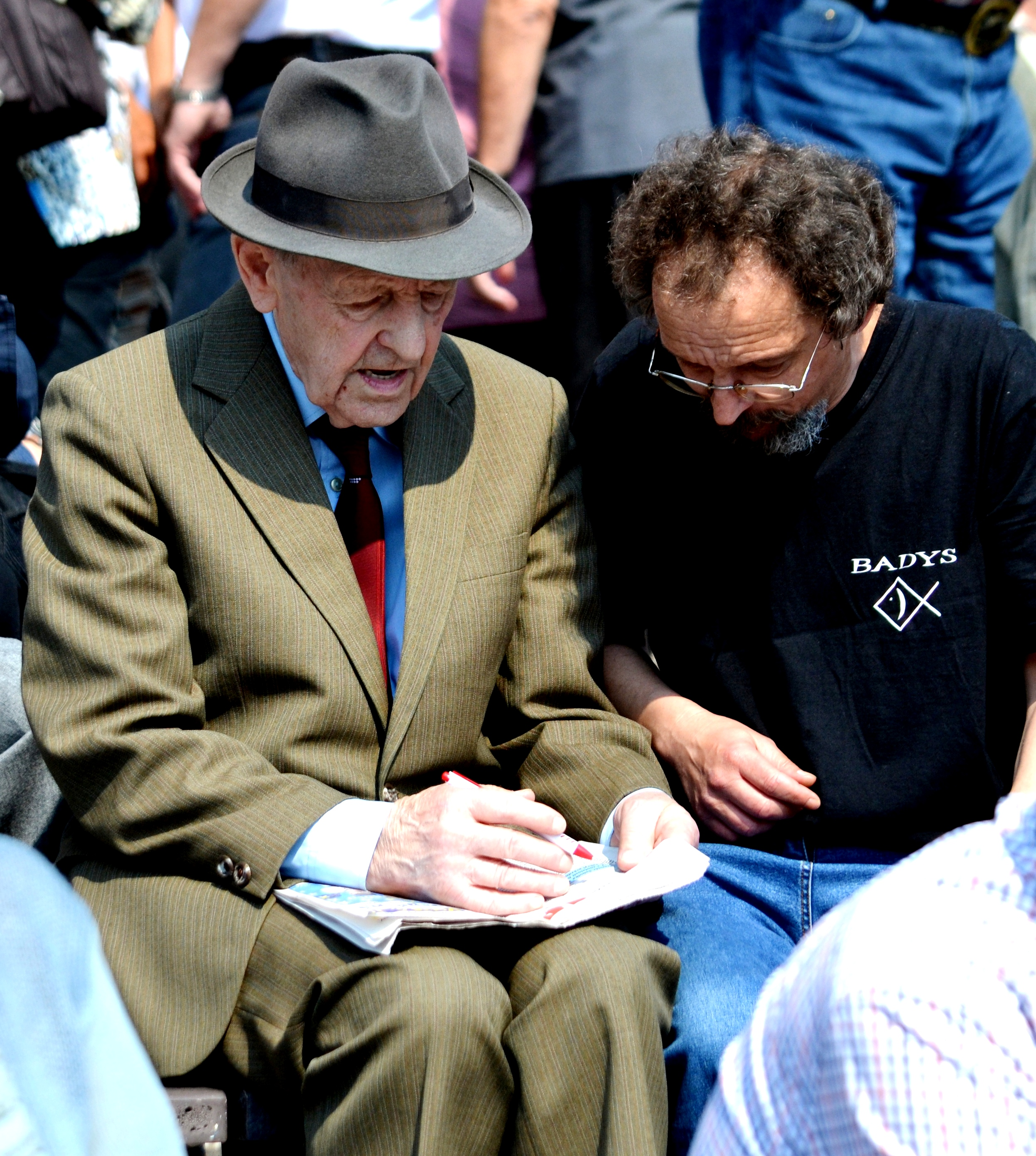 Milouš Jakeš, former General Secretary of the Communist Party of Czechoslovakia (on the left side)